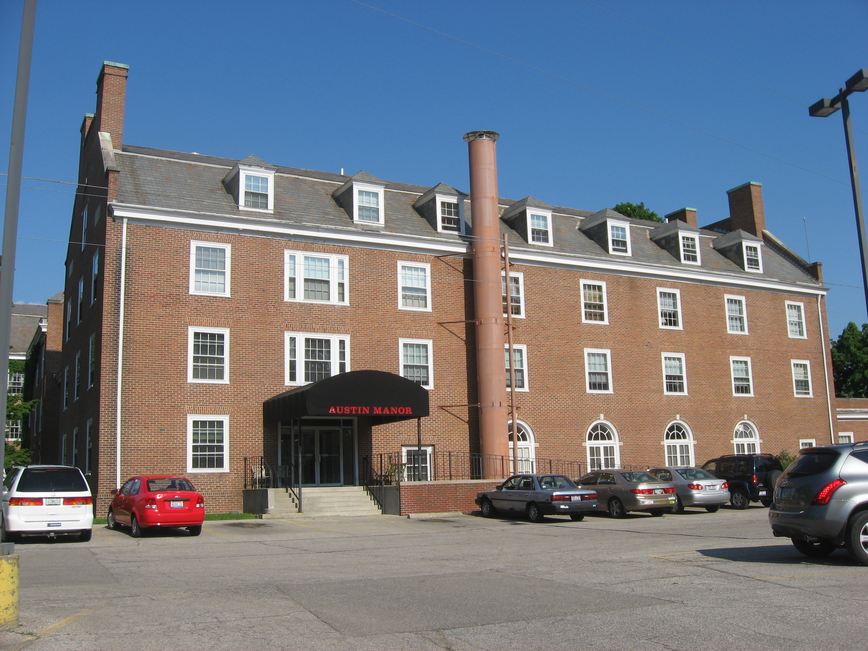 Rear of Austin Hall, located on the southwestern corner of the intersection of Central Avenue (State Route 37) and Elizabeth Street on the campus of Ohio Wesleyan University in Delaware, Ohio, United States. Built in 1923, it is listed on the National Register of Historic Places.